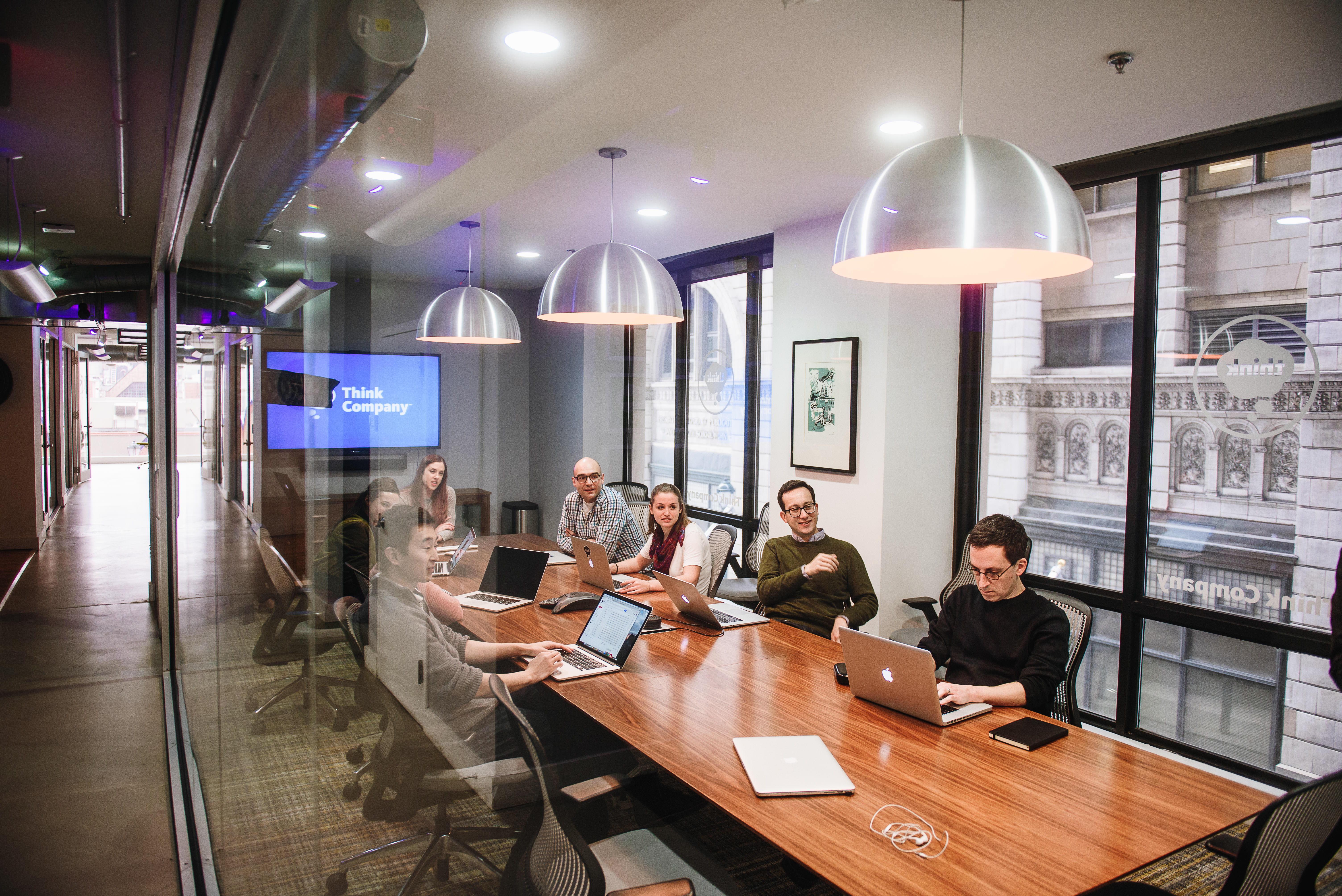 Think Company, Philadelphia East (Juniper Meeting Room)